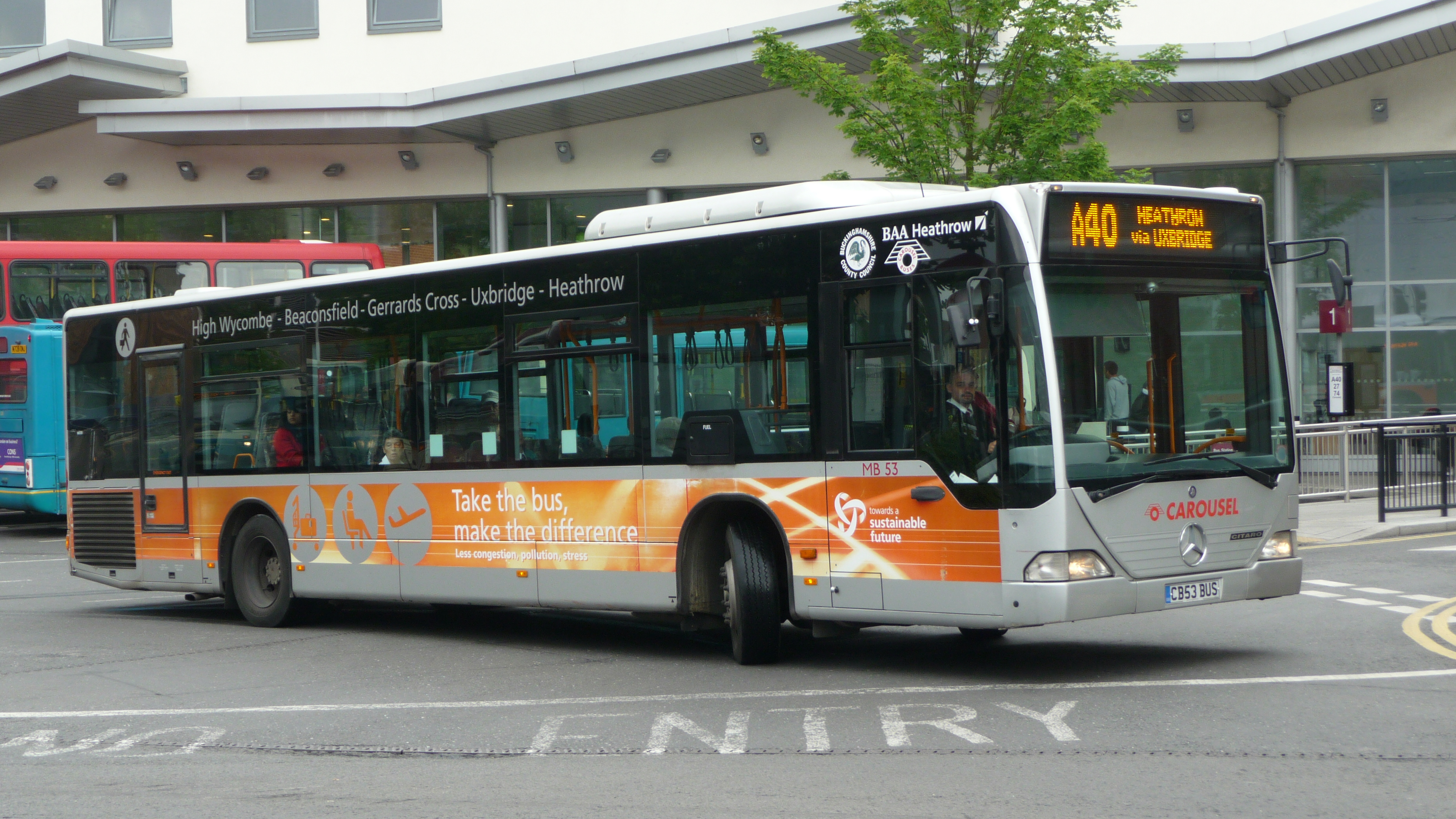 Carousel Buses MB53 (CB53 BUS), a Mercedes-Benz Citaro, leaving the bus station in Bridge Street, High Wycombe, Buckinghamshire, on route A40. It has a special BAA livery. Various BAA supported service around Heathrow had this silver-based livery, with different coloured vinyls. High Wycombe was red (seen here faded to orange), Staines and Egham route 441 was turquoise, Slough was purple and Walton-on-Thames, Shepperton and Sunbury were blue. All buses involved now have new liveries.